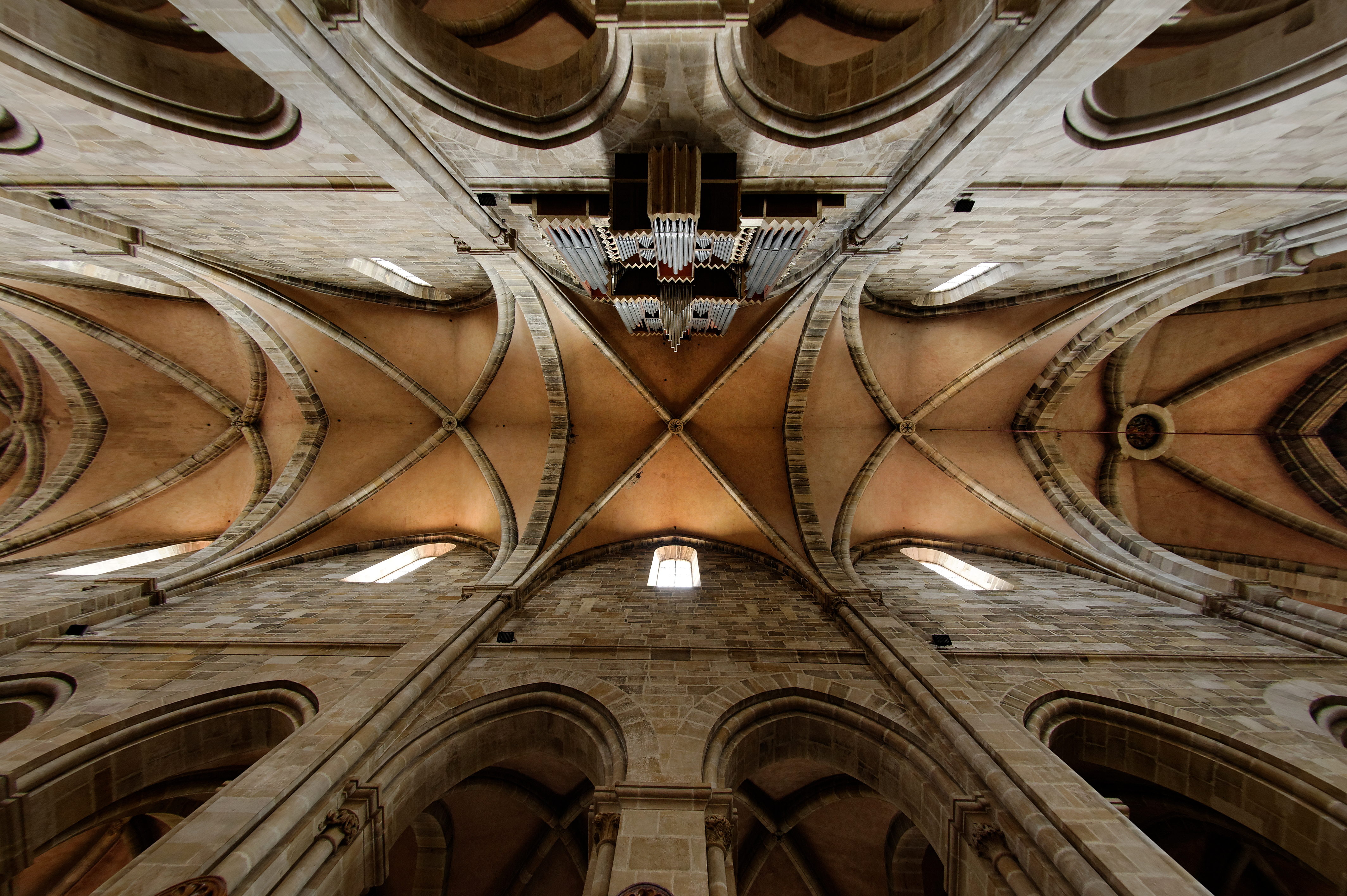 The Bamberg Cathedral St. Peter und St. Georg.